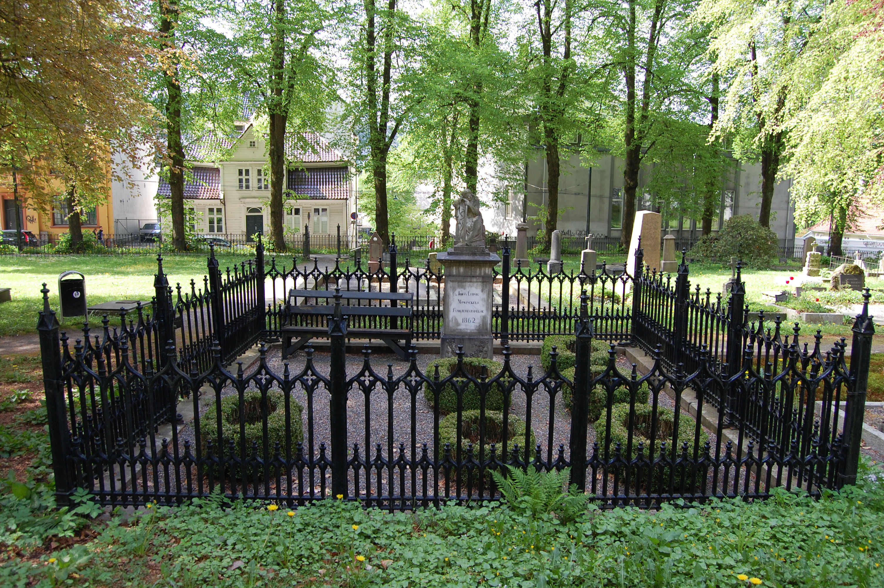 Sankt Jacobs kirkegård, Bergen, Norway